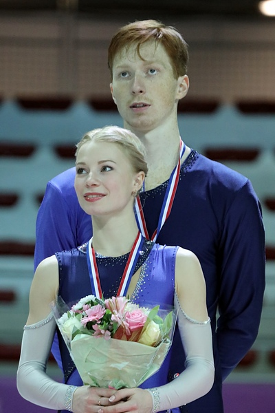 Evgenia Tarasova and Vladimir Morozov at the 2016–17 Grand Prix of Figure Skating Final.